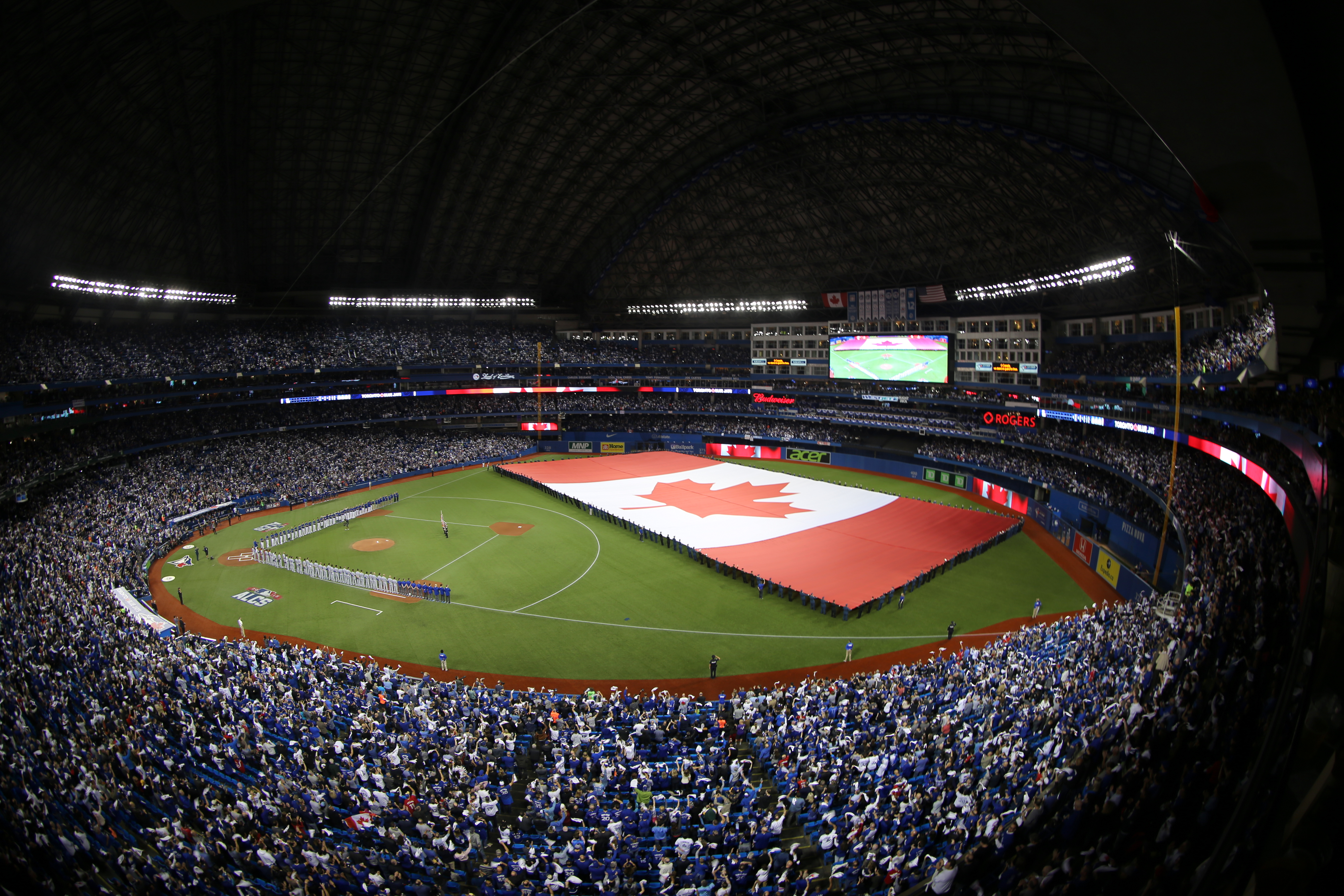 A giant Canadian flag is unfurled before Game 3 of the American League Championship Series (ALCS) at Rogers Centre in Toronto between the Toronto Blue Jays and Kansas City Royals on 19 October 2015.